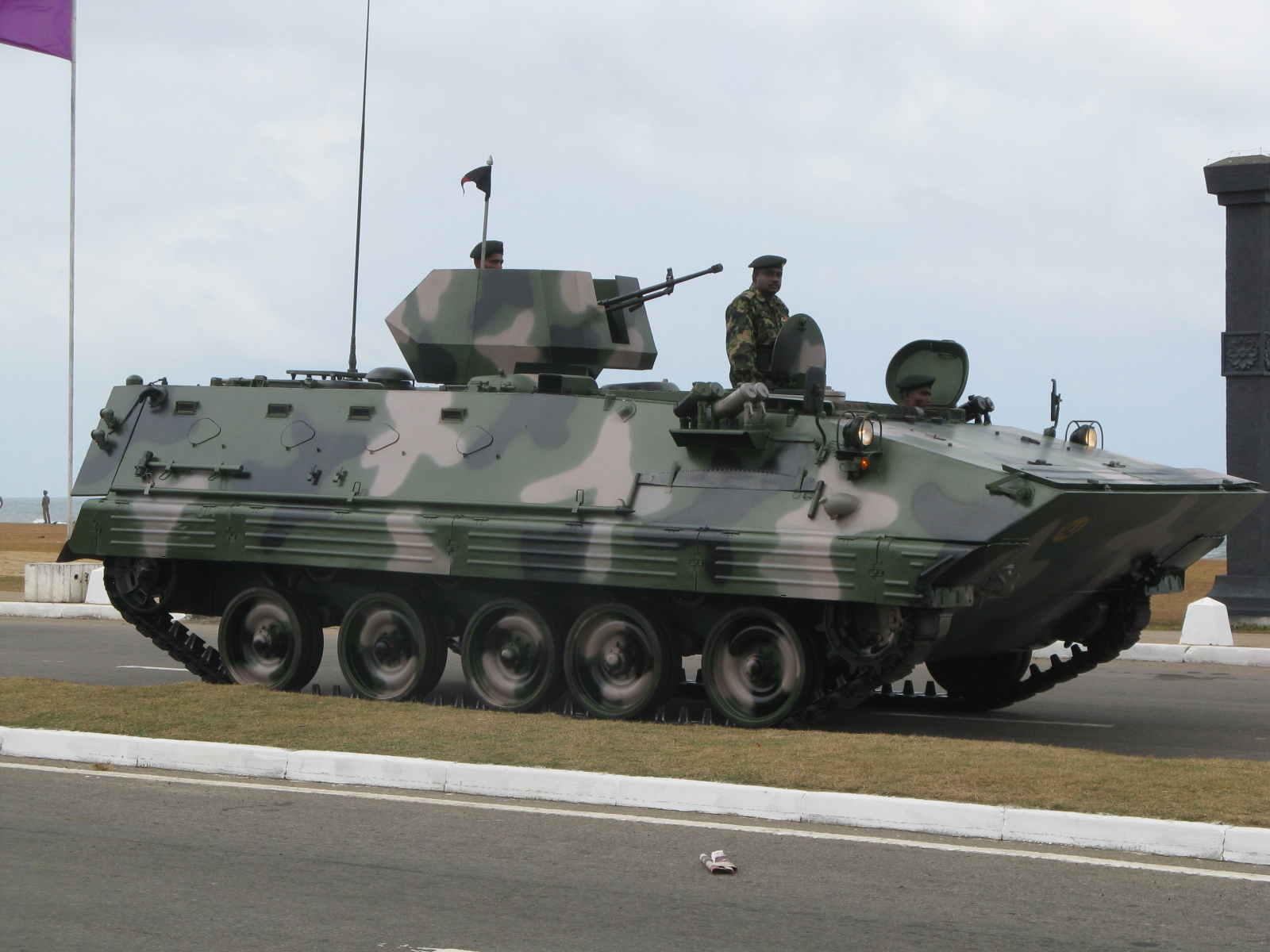 Norinco Type 89 (YW534) Armored Fighting Vehicle - Sri Lanka Army